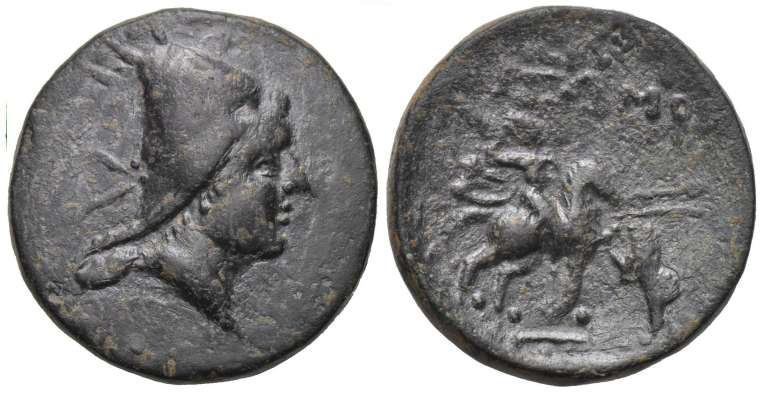 Coin of Arsames I (240 BC), Armenian King of Sophene (source: Y. T. Nercessian «Coinage of the Armenian Kingdom of Sophene. (ca. 260-70 B.C.)» p. 51, image 3g)